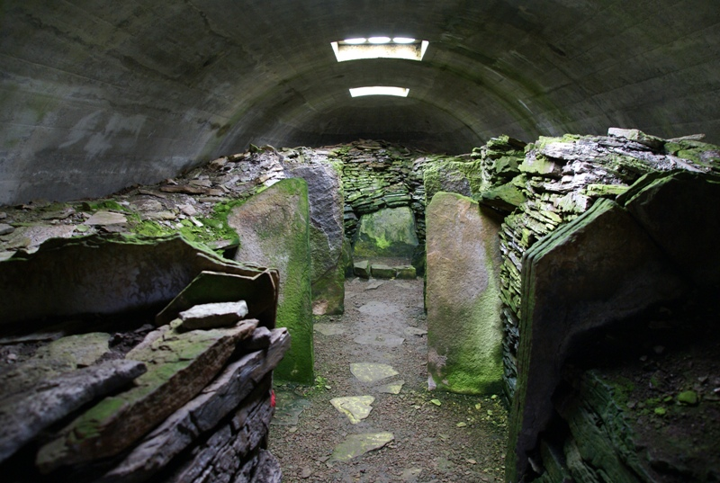 Knowe of Yarso Chambered Cairn, Rousay, Orkney, Scotland - interior